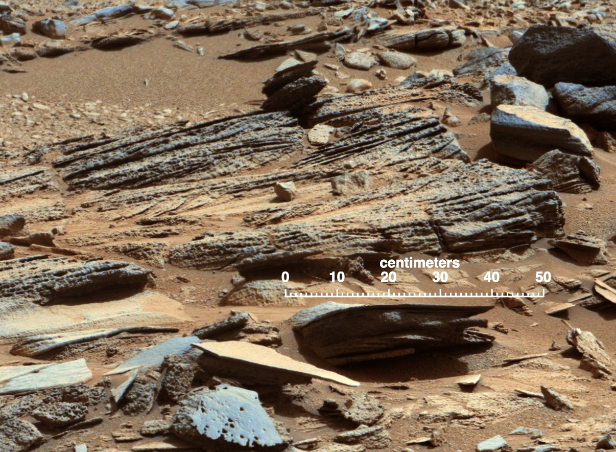 This image from the Mast Camera (Mastcam) on NASA's Mars rover Curiosity shows inclined layering known as cross-bedding in an outcrop called "Shaler" on a scale of a few tenths of meters, or decimeters (1 decimeter is nearly 4 inches). The superimposed scale bar is 50 centimeters (19.7 inches). This stratigraphic unit is called the Shaler Unit. Decimeter-scale cross-bedding in the Shaler Unit is indicative of sediment transport in stream flows. Currents mold the sediments into small underwater dunes that migrate downstream. When exposed in cross-section, evidence of this migration is preserved as strata that are steeply inclined relative to the horizontal -- thus the term "cross-bedding." The grain sizes here are coarse enough to exclude wind transport. This cross-bedding occurs stratigraphically above the Gillespie Unit in the "Yellowknife Bay" area of Mars' Gale Crater, and is therefore geologically younger. Mastcam obtained the image on the 120th Martian day, or sol, of Curiosity's surface operations (Dec. 7, 2012). The image has been white-balanced to show what the rock would look like if it were on Earth.